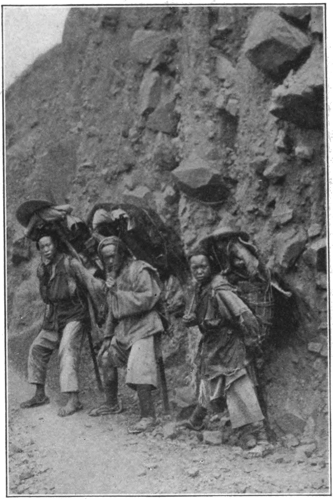 "Carrier Coolies." Facing page 106 of book.